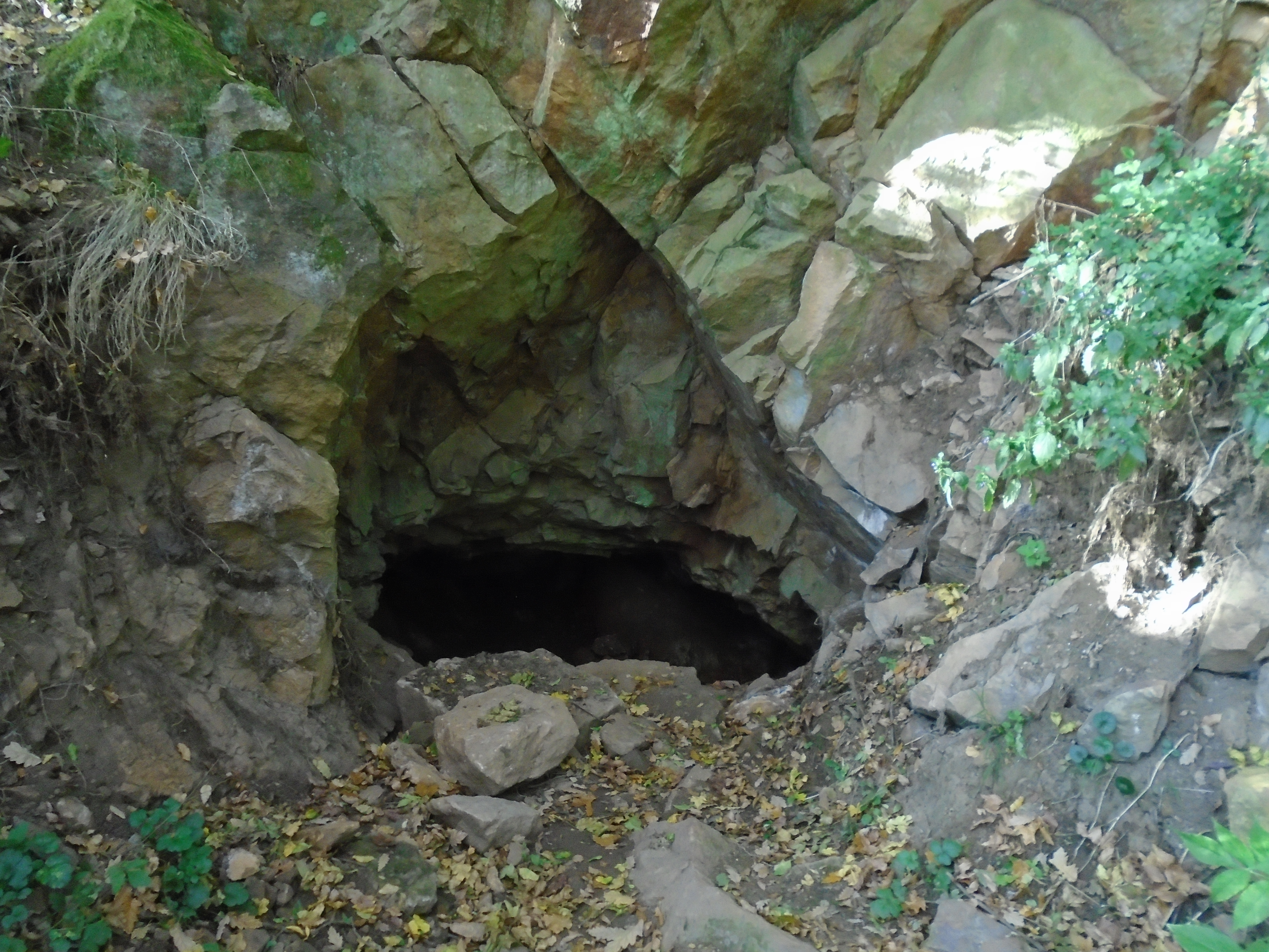 Entrance of Dinó Cave in Csobánka.